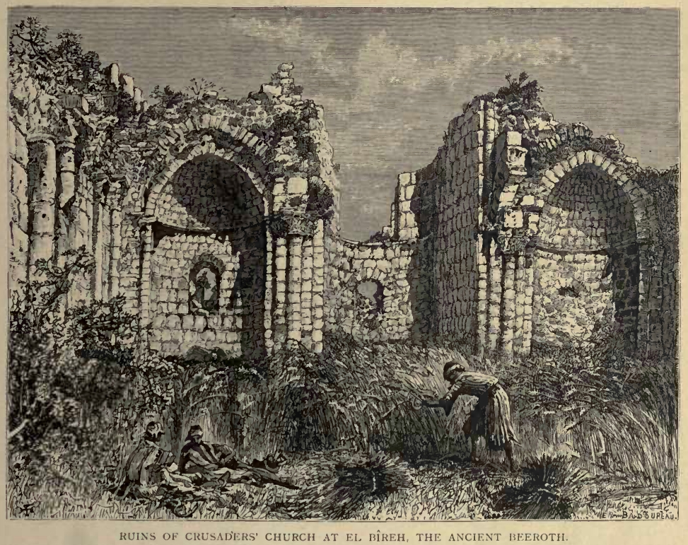 Al-Bireh in 1880